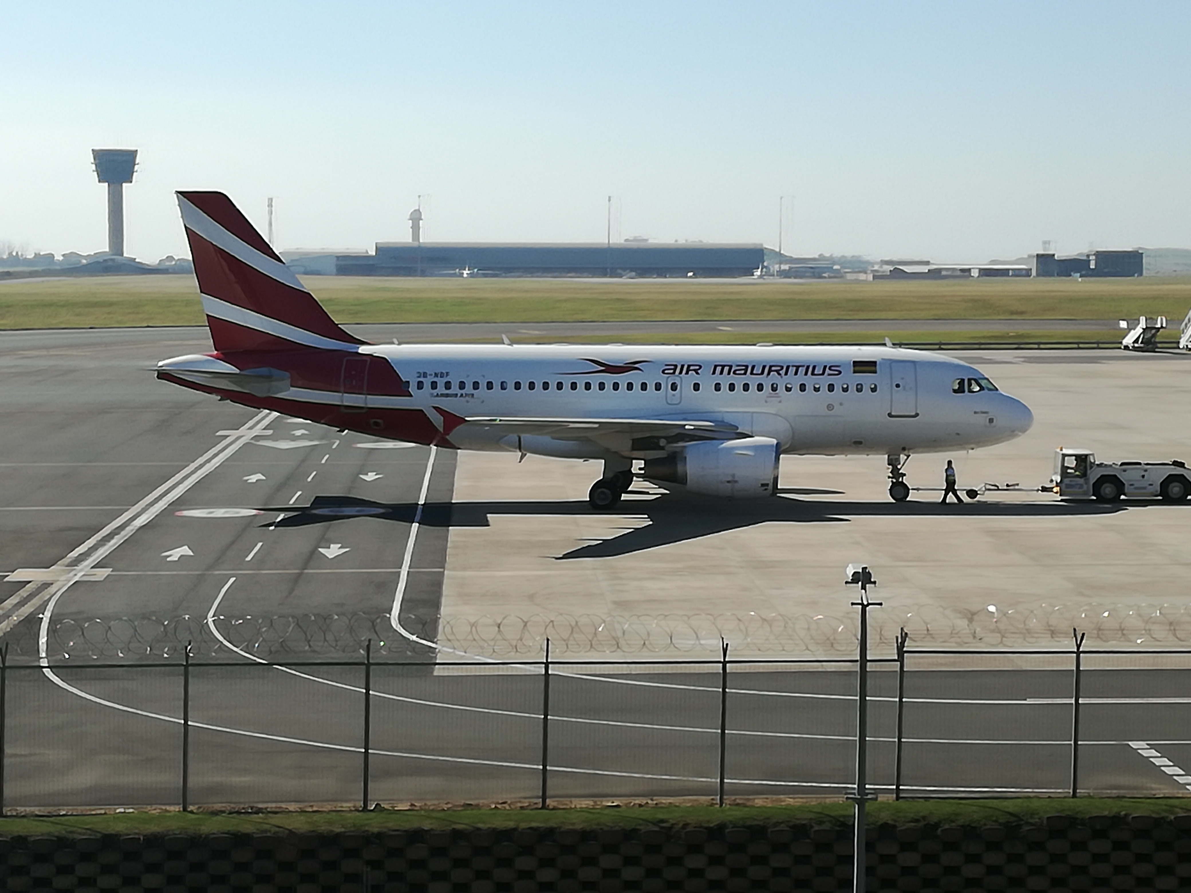 Air Mauritius A319-100 at King Shaka International Airport, June 2017